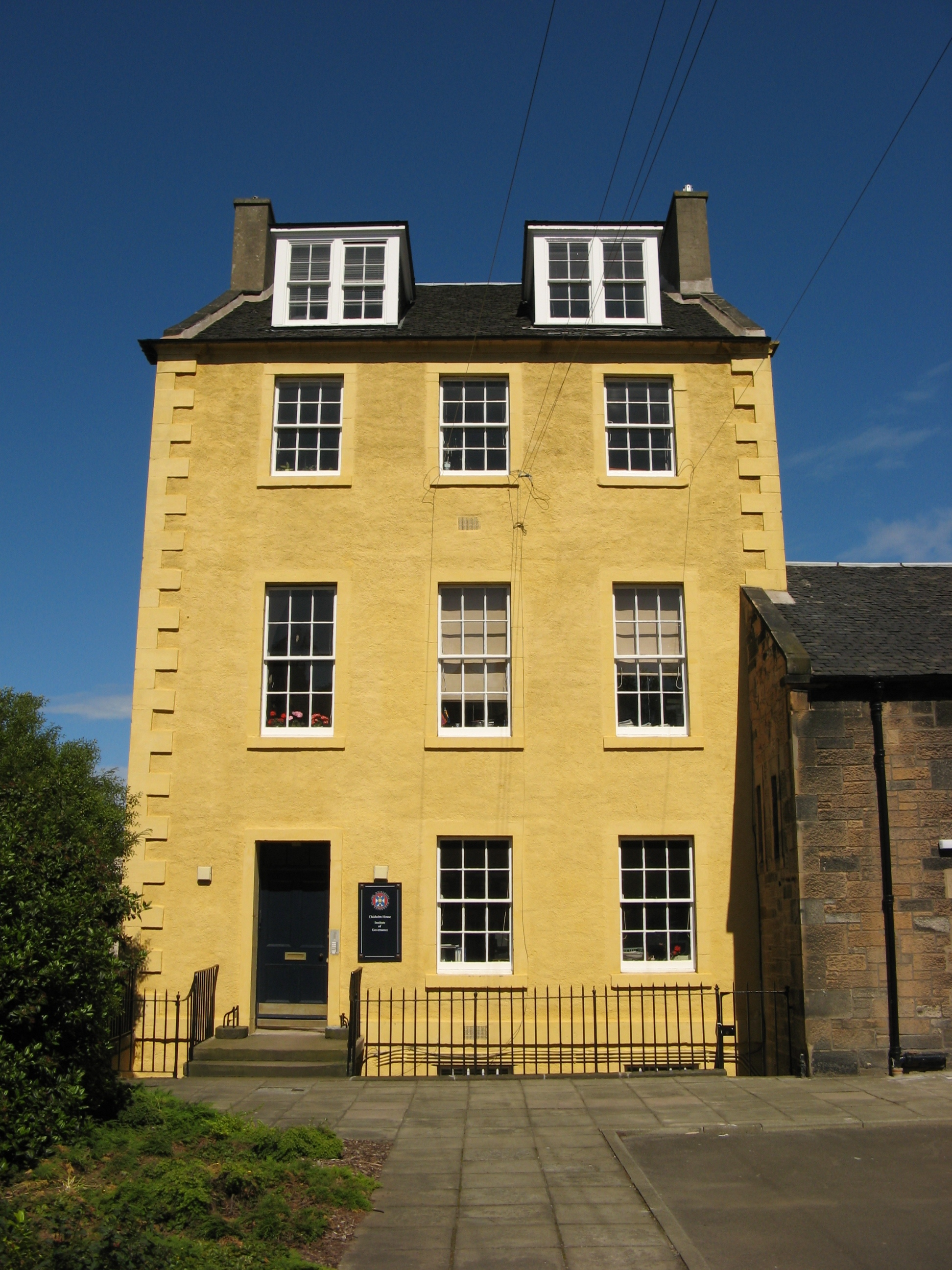 Chisholm House, Surgeons' Square, High School Yards, Edinburgh. University of Edinburgh Institute of Governance. Built in 1764.